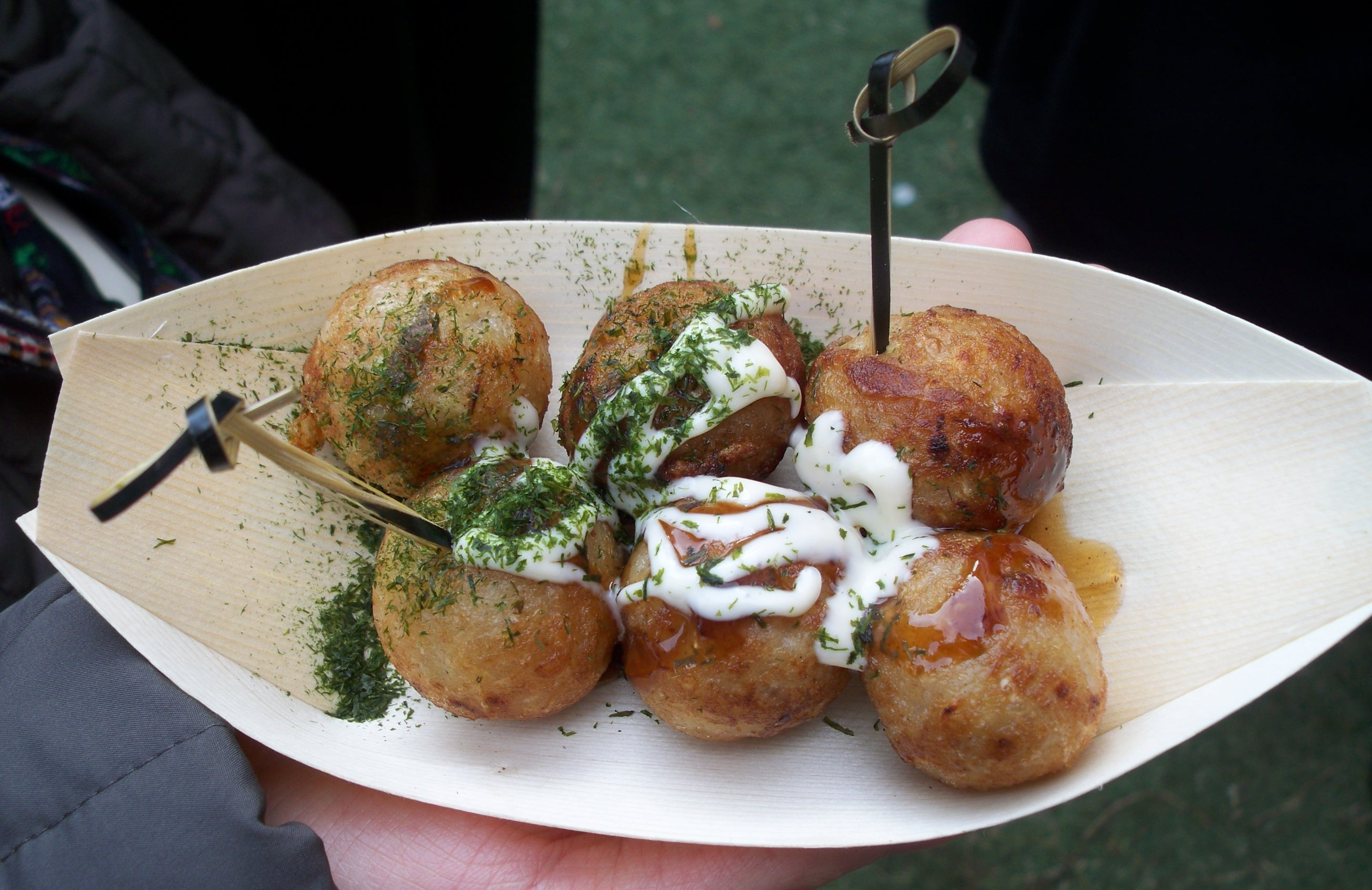 Takoyaki @ LaFesta 2013